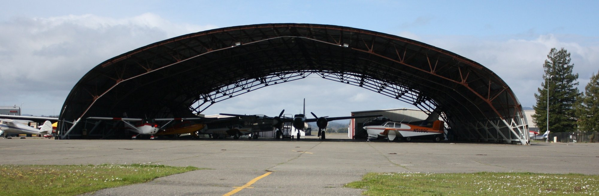 It's a Mad Mad Mad Mad World movie airplane "Butler" hanger, Pacific Coast Air Museum, Charles M. Schulz Sonoma County Airport, Santa Rosa, California